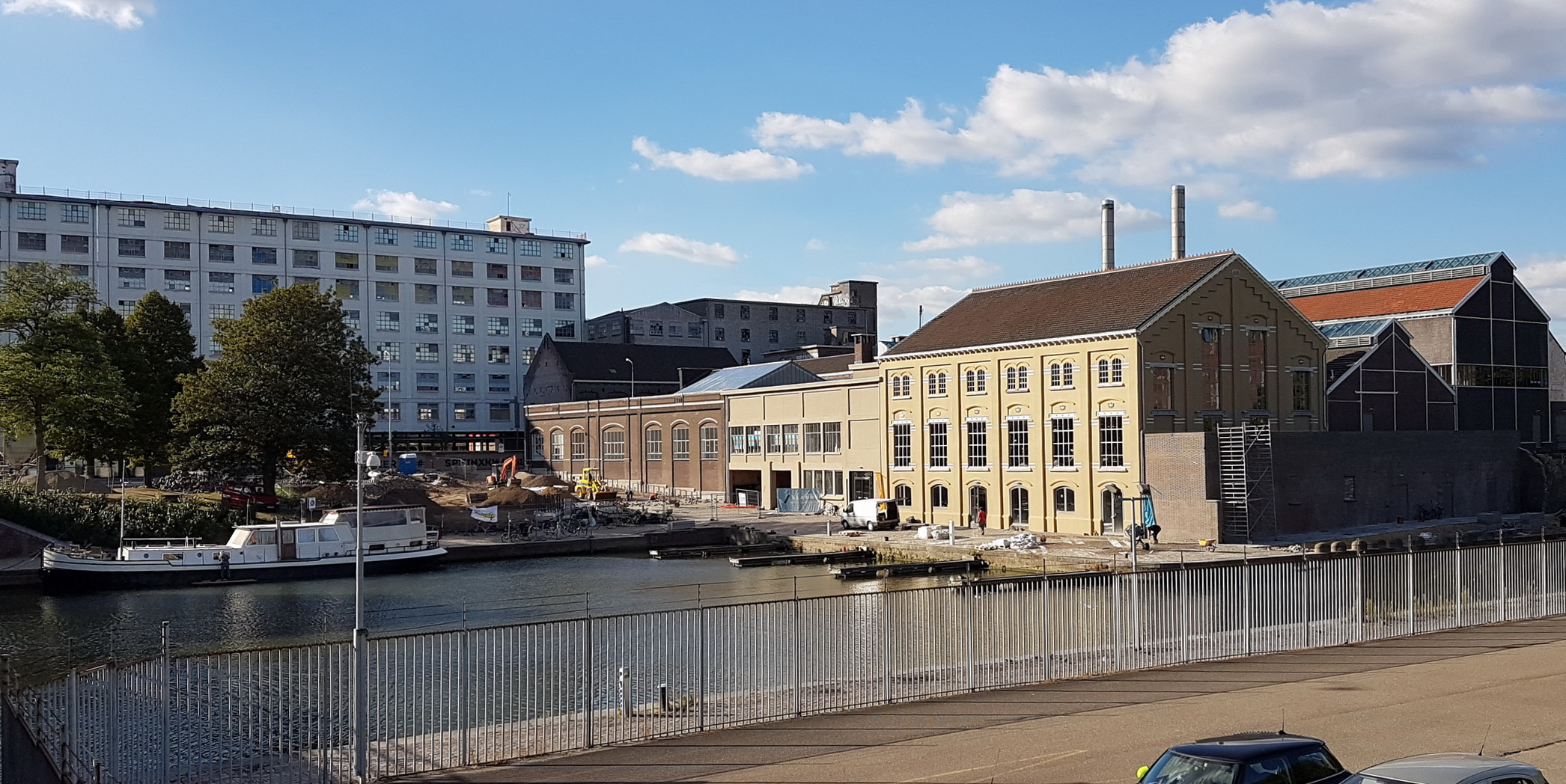 Renovation of two listed buildings on the north side of Bassin, Maastricht, the Netherlands. The buildings, the Hennebique Building (left yellow building) and the former electricity generator building of Sphinx potteries (right) will house the art movie cinema Lumière as from late 2016. The project is part of the Timmerfabriek culture cluster at the north end of Boschstraat.